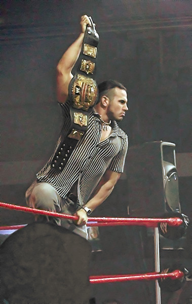 Matt Hardy as WWE Cruiserweight Champion. WWE Fan Axxess. Seattle, WA.